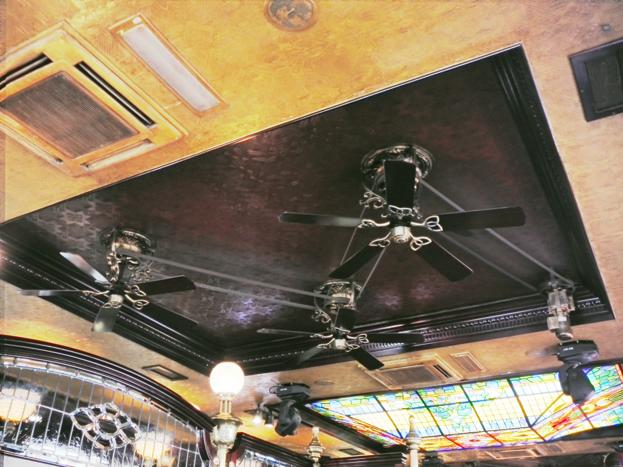 Belt connected ceiling fans in Three Sisters Pub, Amsterdam